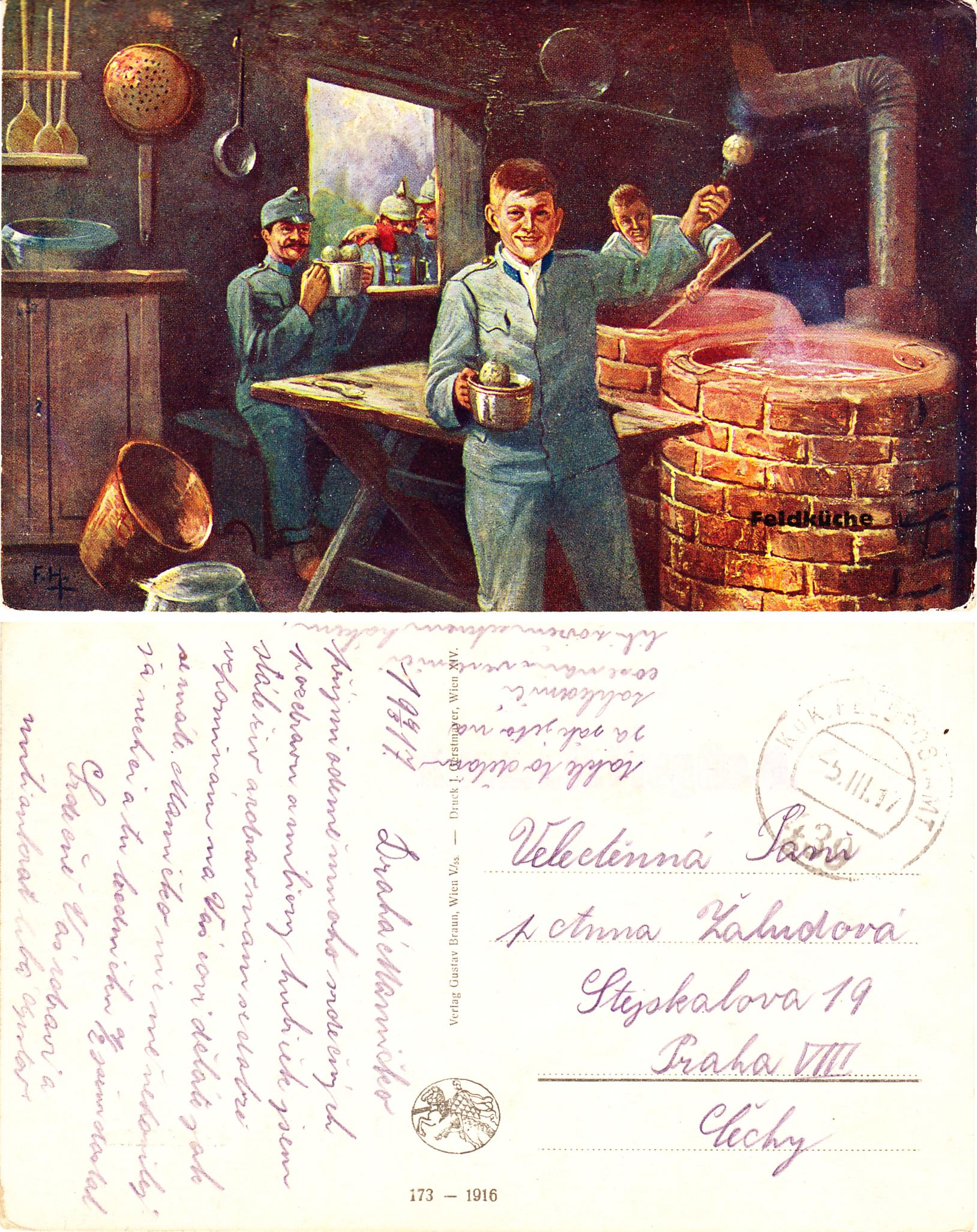 Austro Hungarian postcard, 1917